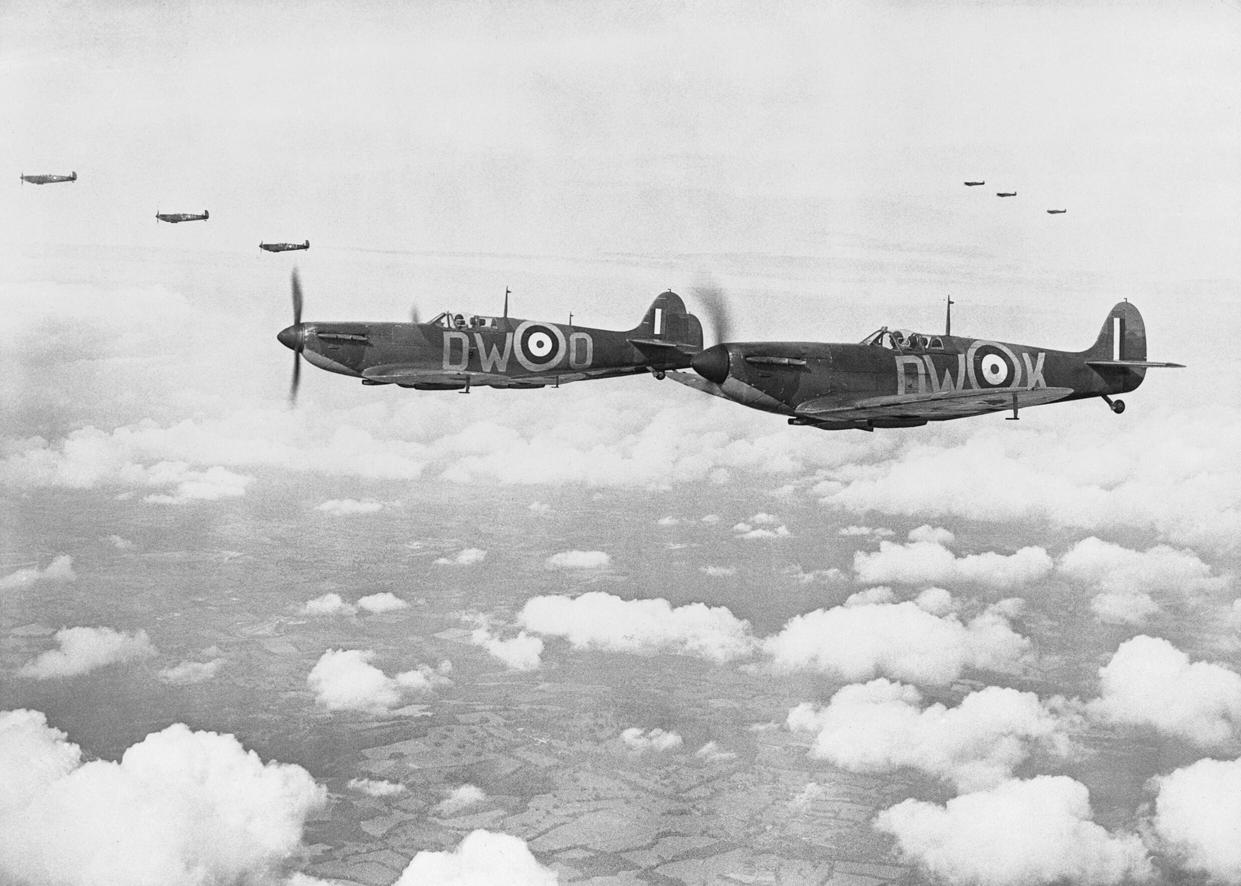 Supermarine Spitfire Mark Is of No. 610 Squadron based at Biggin Hill, flying in 'vic' formation, 24 July 1940. Supermarine Spitfire Mark IAs, (N3289 ‘DW-K and R6595 ‘DW-O’ nearest), of No 610 Squadron, Royal Air Force based at Biggin Hill, Kent, flying in three 'vic' formations.